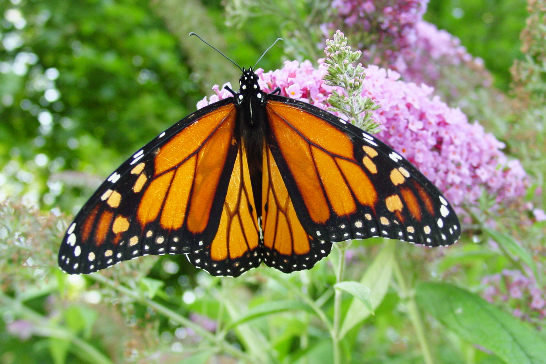 A male Danaus plexippus en commonly known as a Monarch Butterflyen on an unknown species of Buddleja.